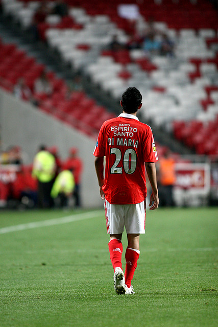 Benfica 3 - 0 Naval my first game as a lusa photographer at a Benfica match, my team.. It was hard not to celebrate the goals and photograph it instead :)